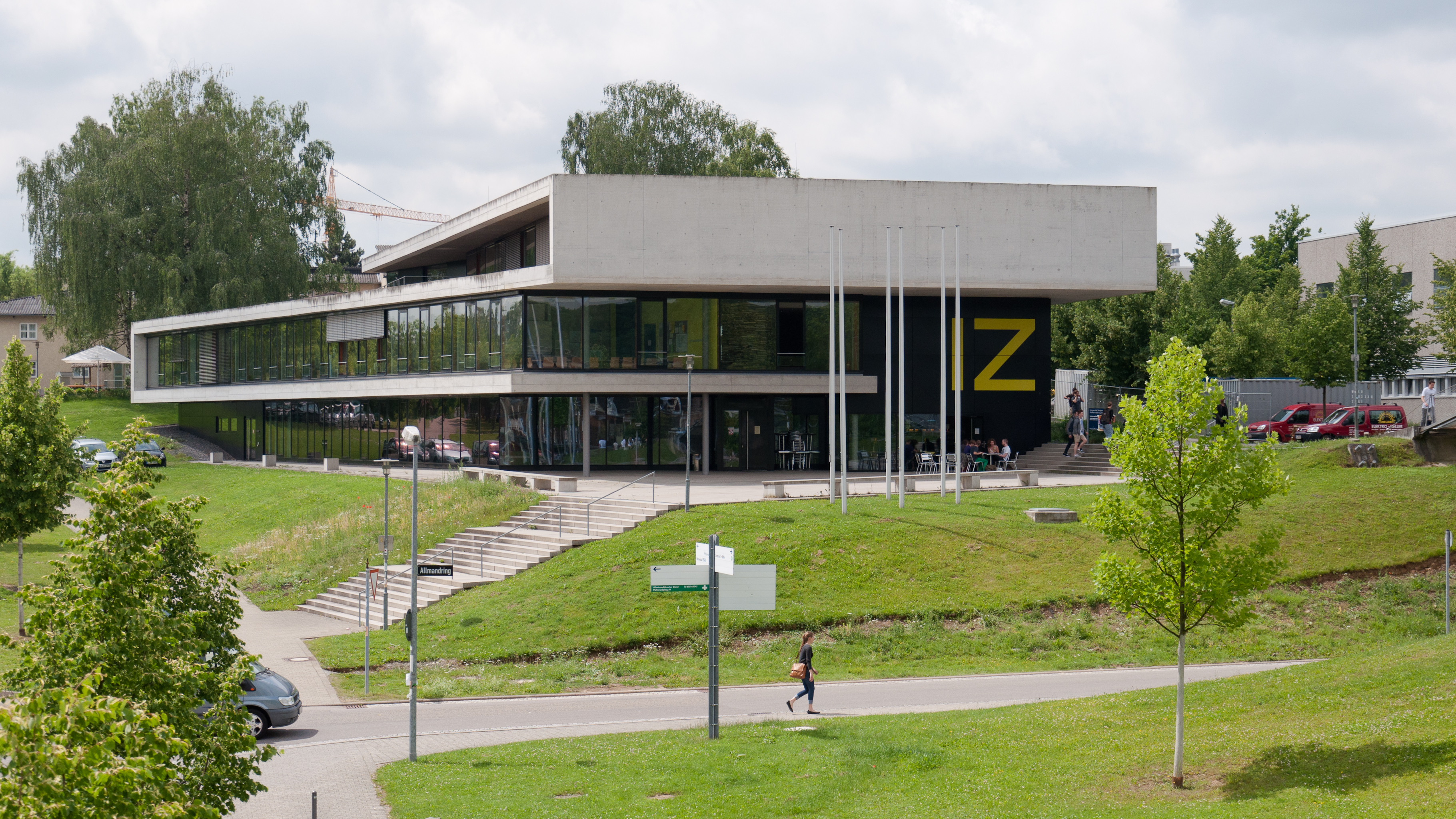 The "Internationale Zentrum" (IZ) on the campus of the University of Stuttgart, Germany.